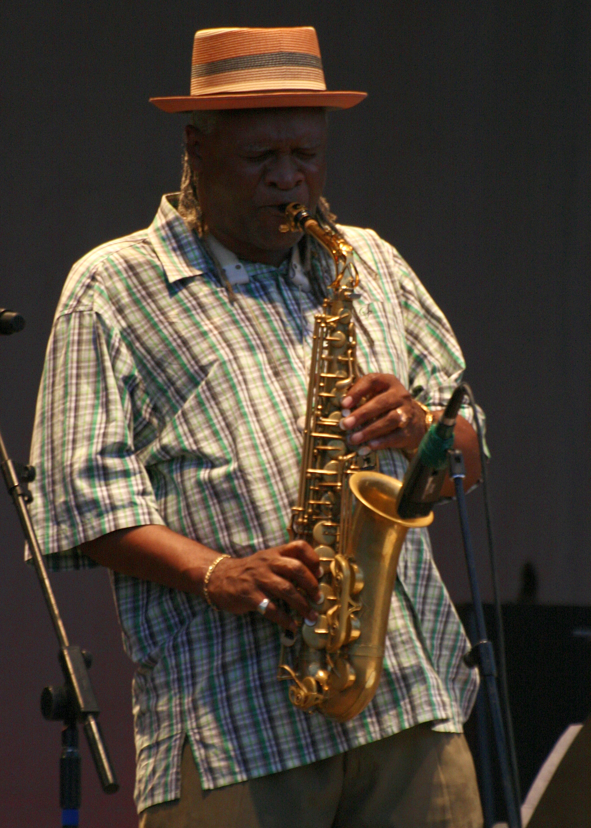 Bobby Watson